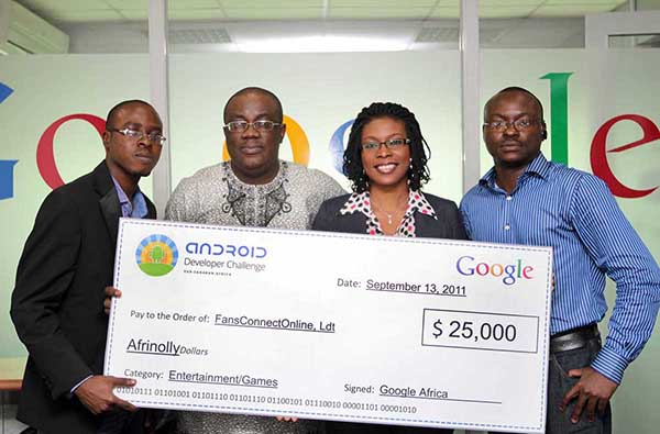 FansConnectOnline Limited winners of the Google Android Developer Challenge, Sub-Saharan Africa in the Entertainment Category with the Afrinolly App was presented with the cash prize (large dummy check) in October 2011.